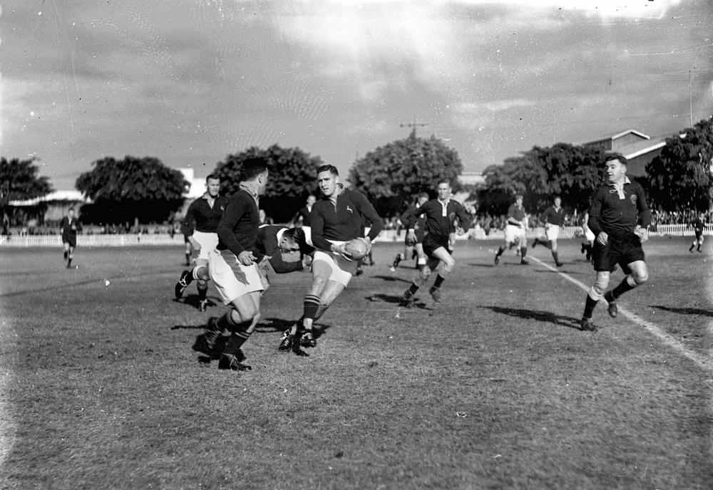 Springboks v. Australia, 1937 A Springbok passes the ball to his team mate. South Africa's national rugby union team, the Springboks, playing Australia while on their 1937 tour of New Zealand and Australia.